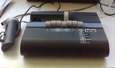 The "Video game" pong console sold by Polistil. Made in Italy in 1978. Based on the AY-3-8500 general instrument chip.